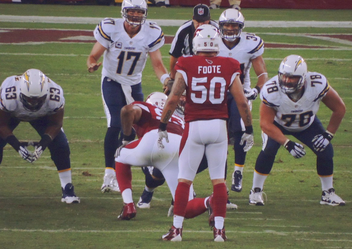 Larry Foote playing for the Arizona Cardinals in a game against the San Diego Chargers.